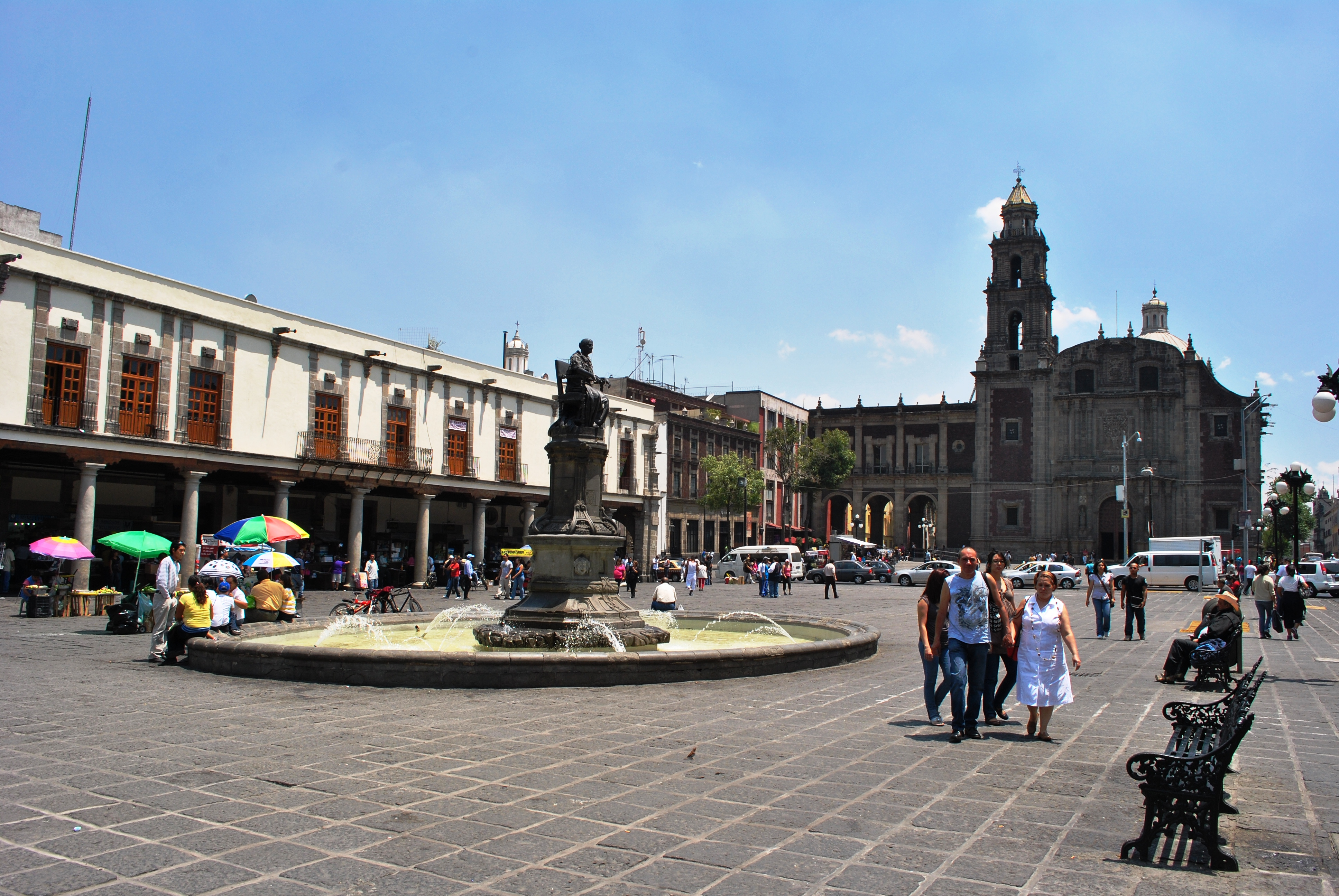 Santo Domingo (Mexico City)